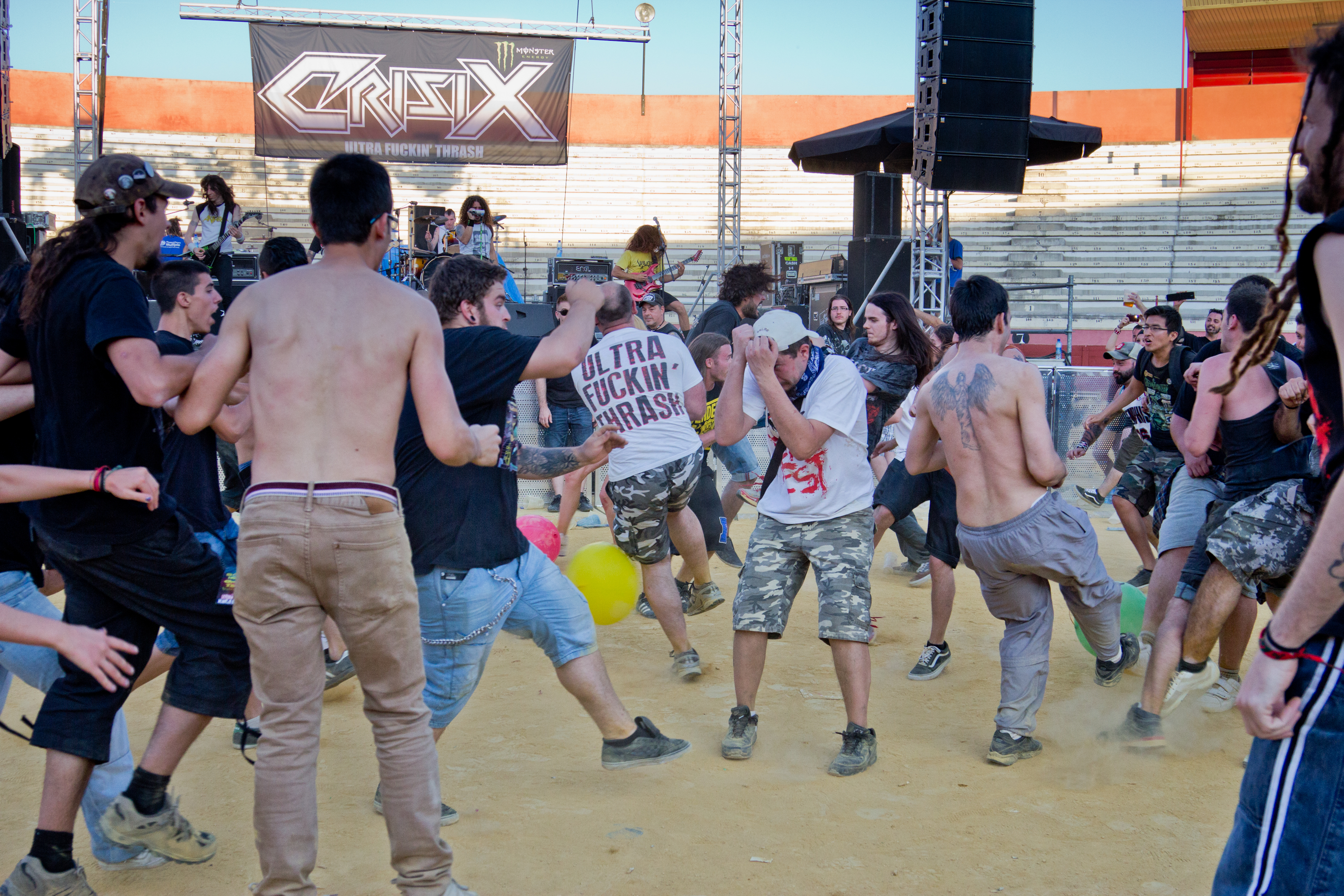 Pogo at the Asaco Metal Fest 2013, Parla, Spain.